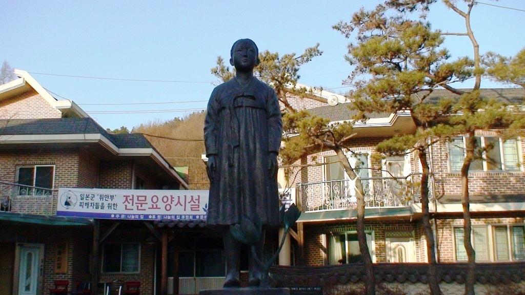 Bronze sculpture. Nanum sharing house. Korea Rep.